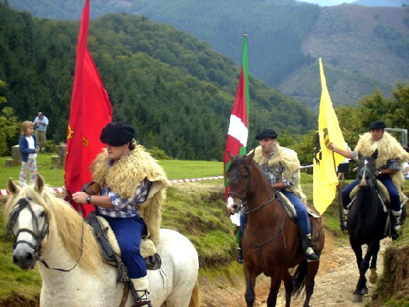 Horsemen carrying Navarrese, Basque and Black Eagle flags in 2006 at Aritxulegi, Oiartzun, Gipuzkoa, Basque Country